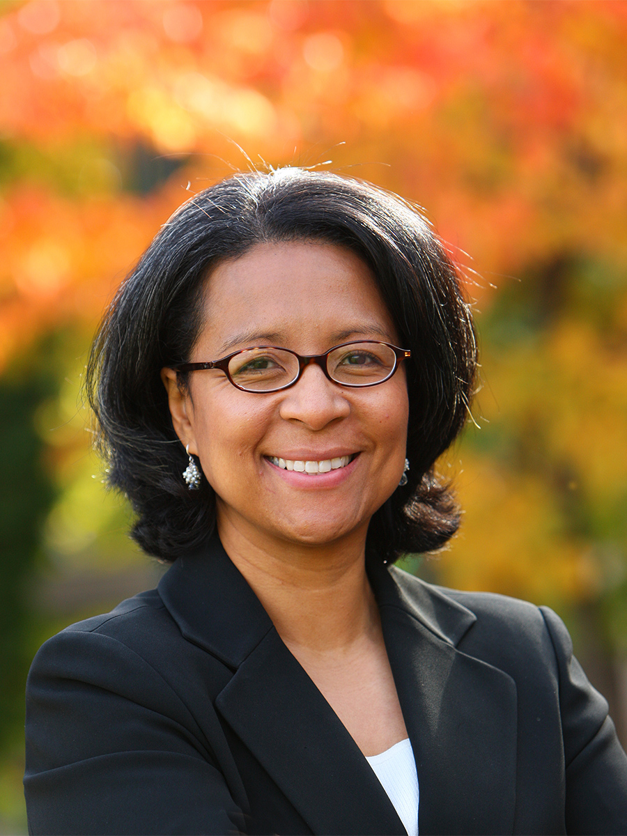 Mayor City of Tacoma